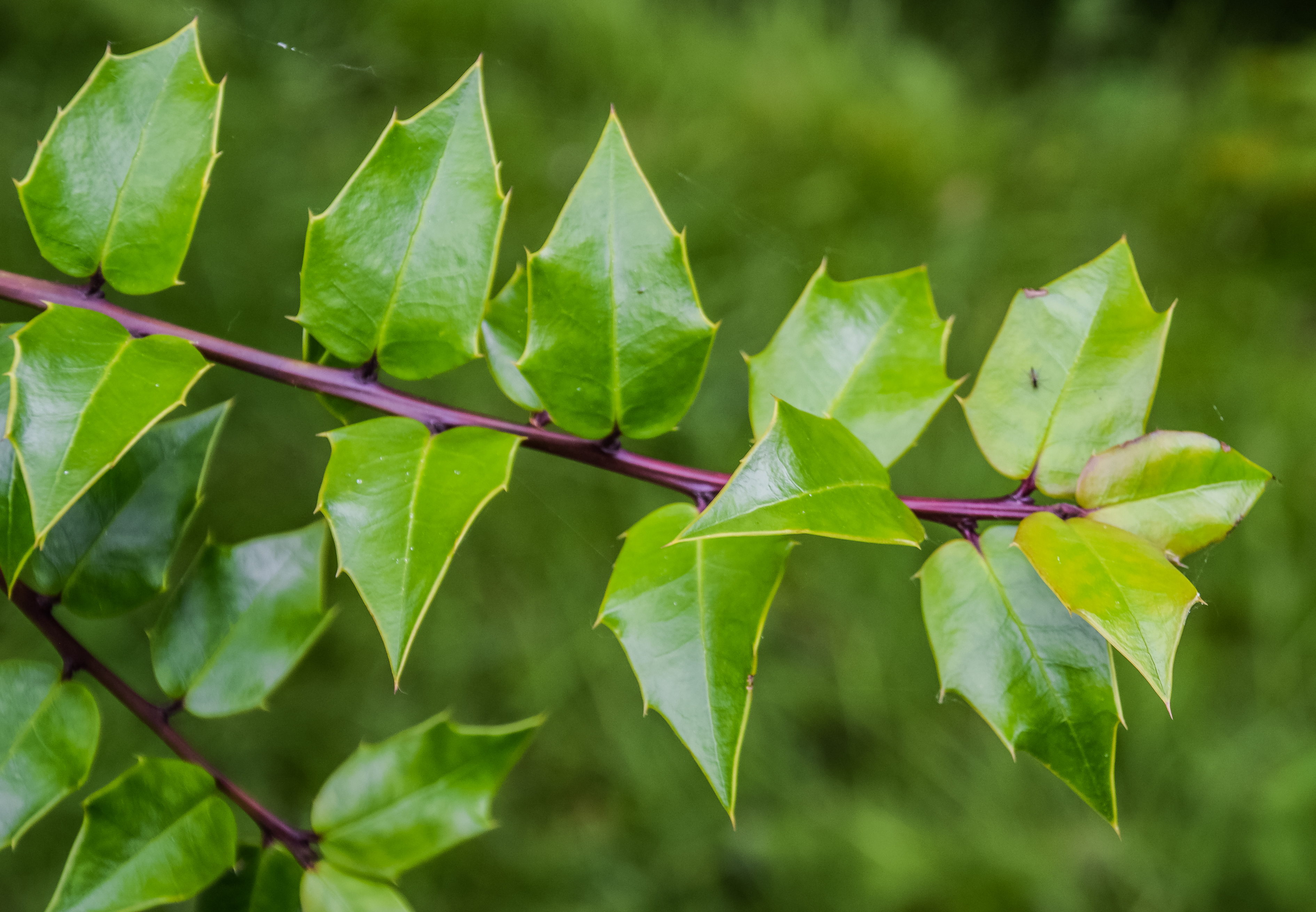 Ilex bioritsensis in Hackfalls Arboretum, Gisborne Region, New Zealand